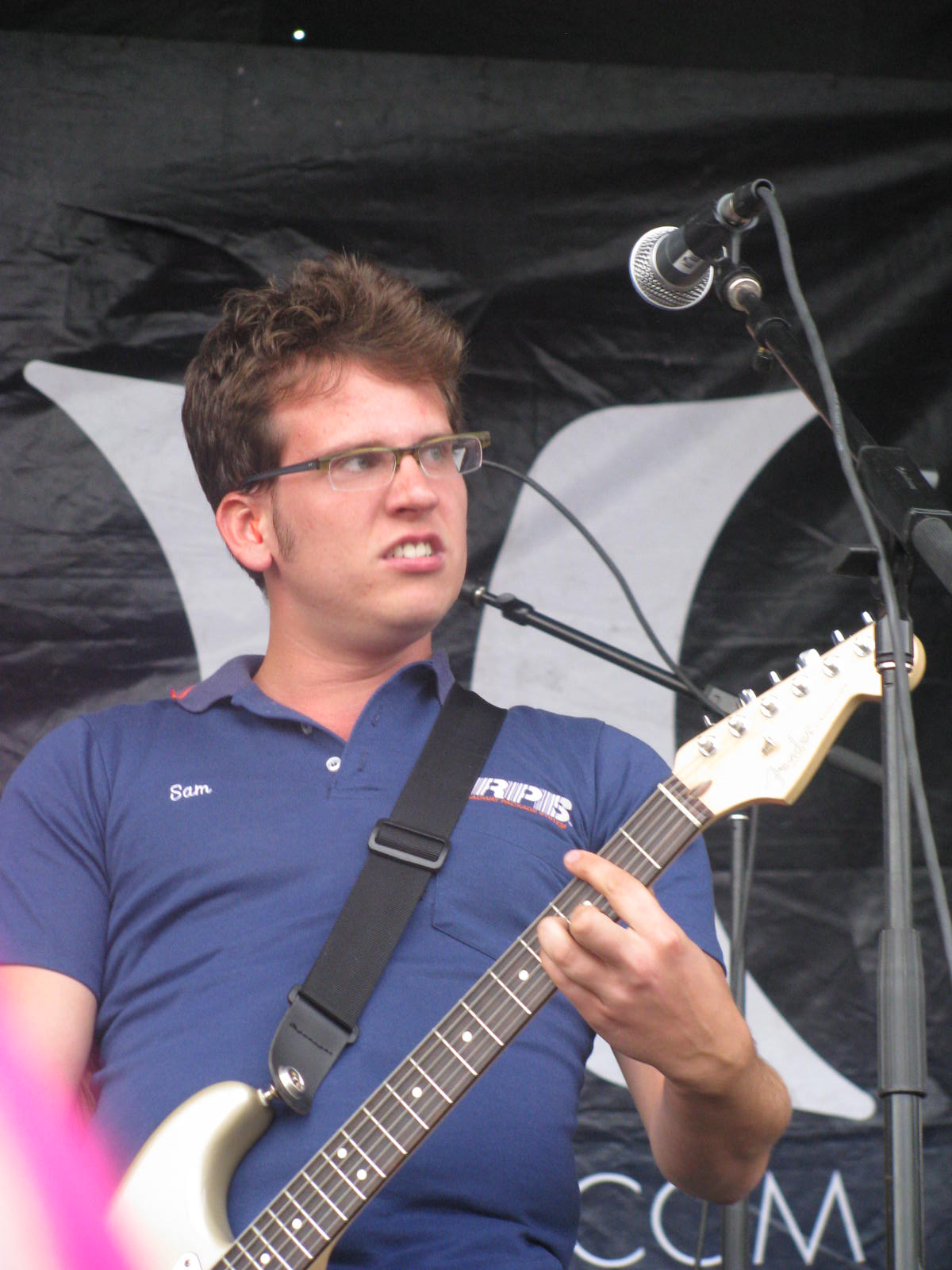 Andrew Volpe performing live with band, Ludo, for Vans Warped tour at Darien Lake, Buffalo, New York on July 24th, 2008.